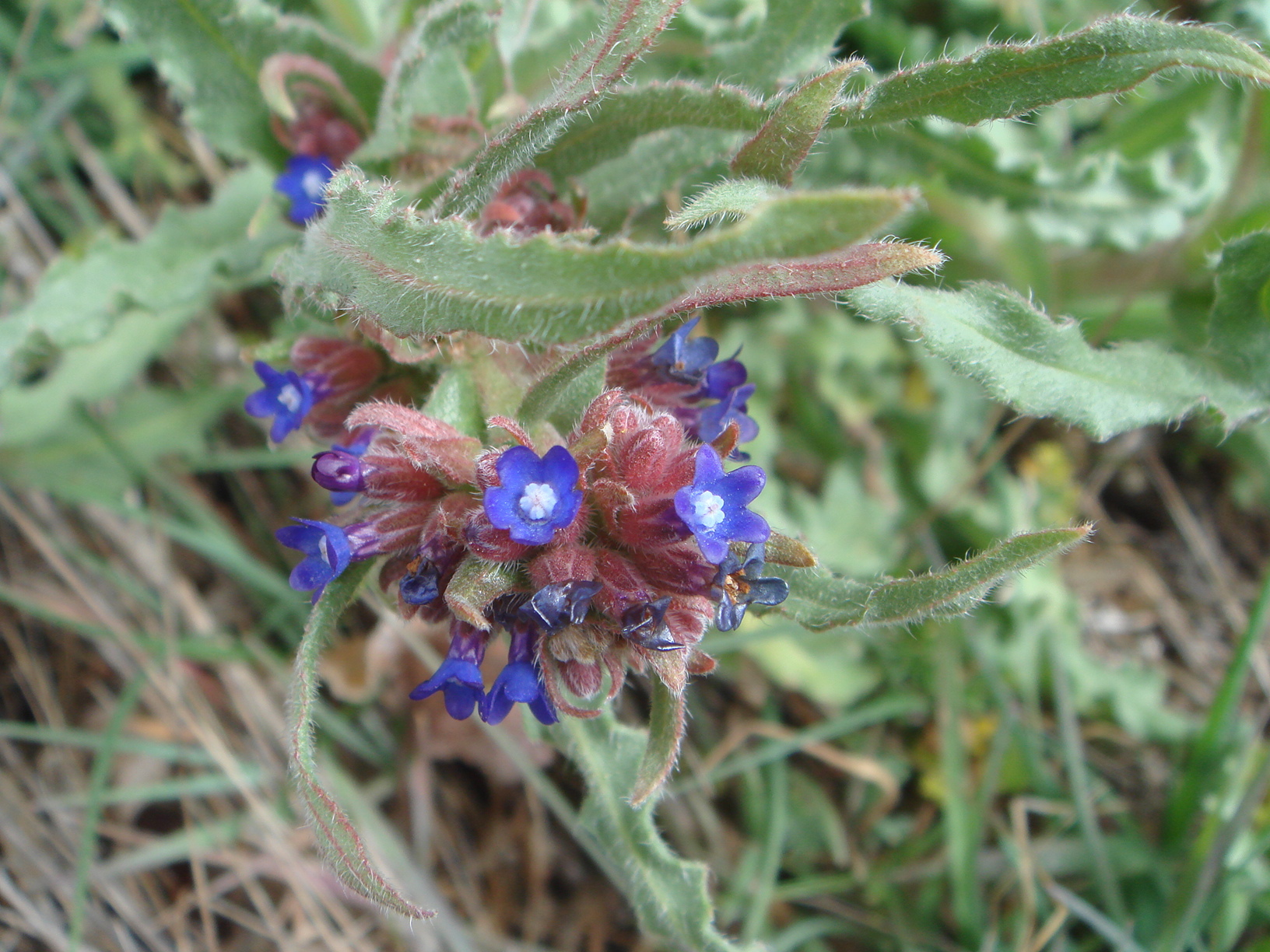 Anchusa undulata subsp. hybrida Ten, La Torre (Ávila), Spain